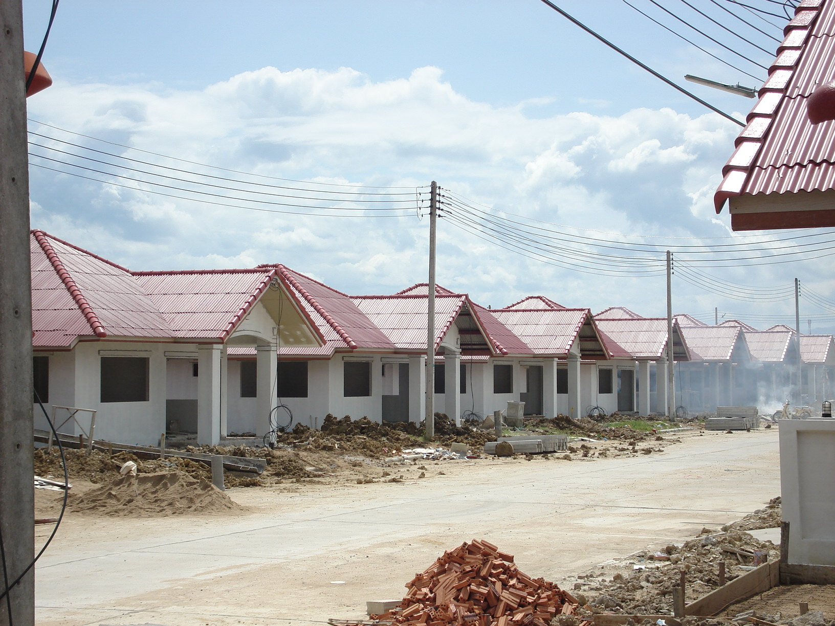 under construction of houses (โครงการบ้านจัดสรร "วังน้ำริน") in Hang Dong, Chiang Mai, Thailand